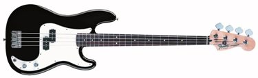 Ian's Fender Precision Bass.